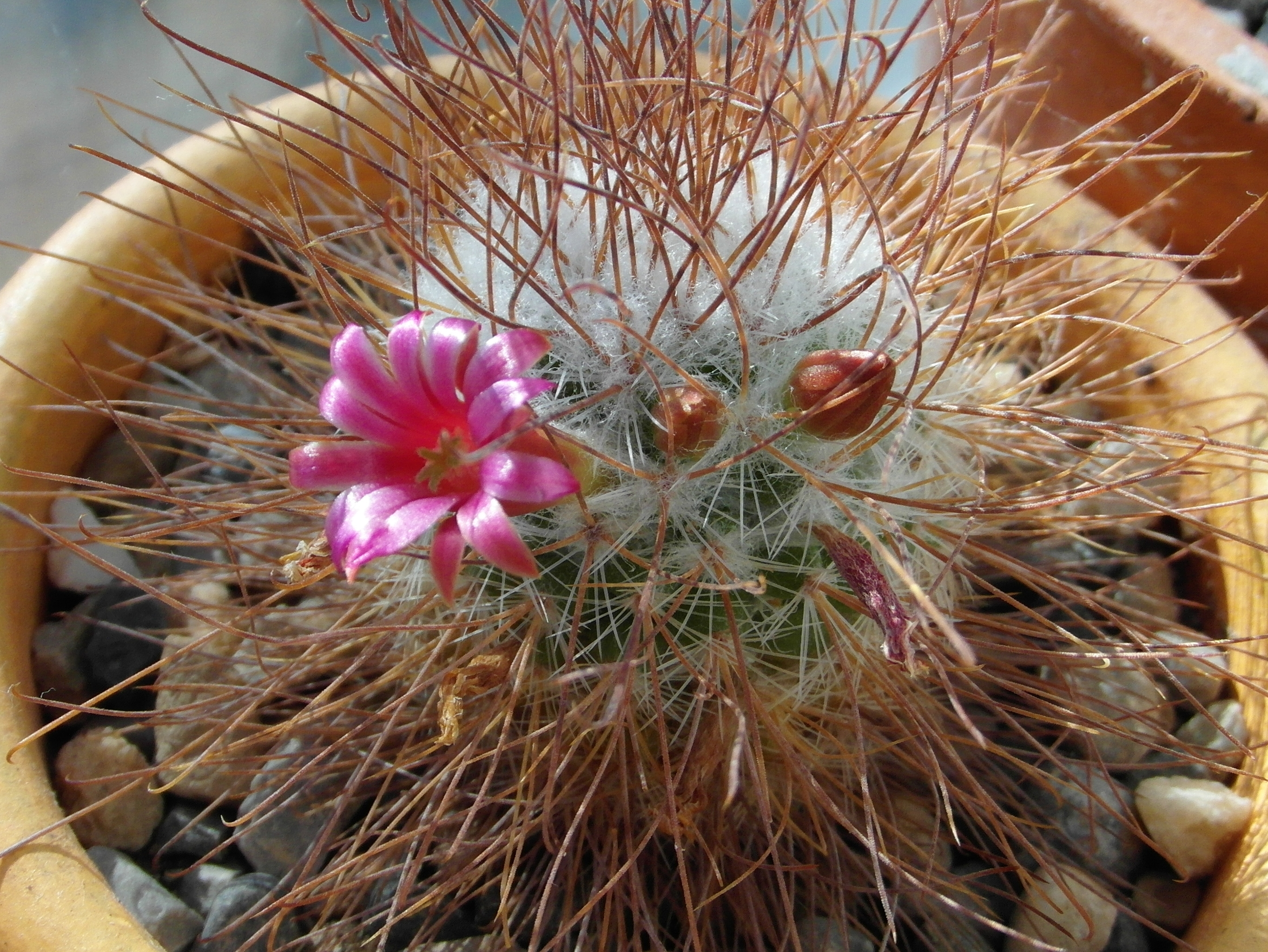 Mammillaria rekoi ssp. leptacantha